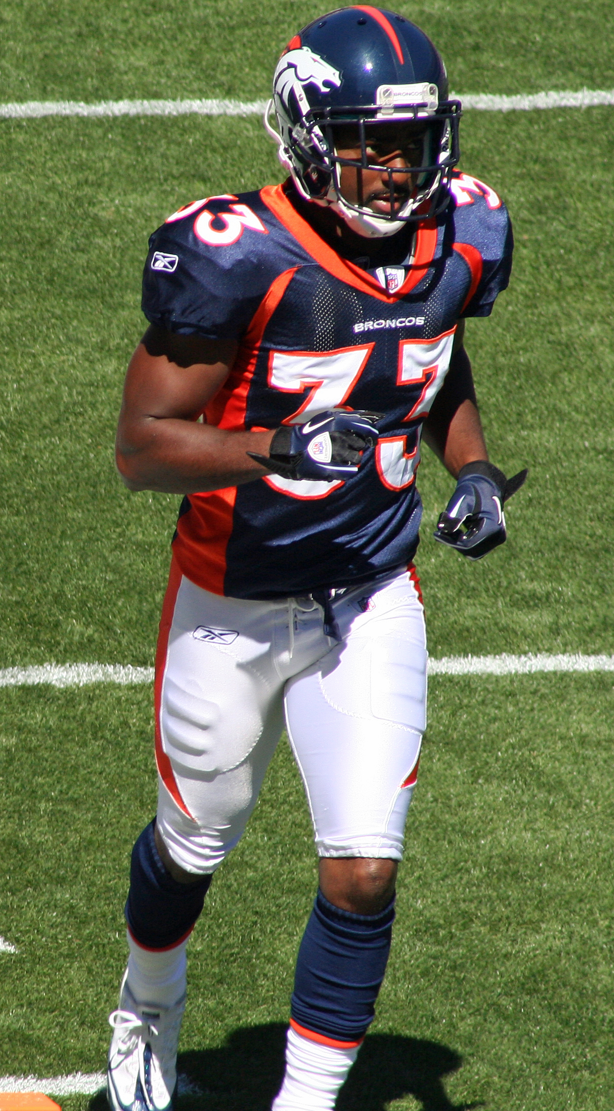 Nathan Jones, a player on the Denver Broncos American football team.